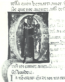 BNF 854, folio 95v.